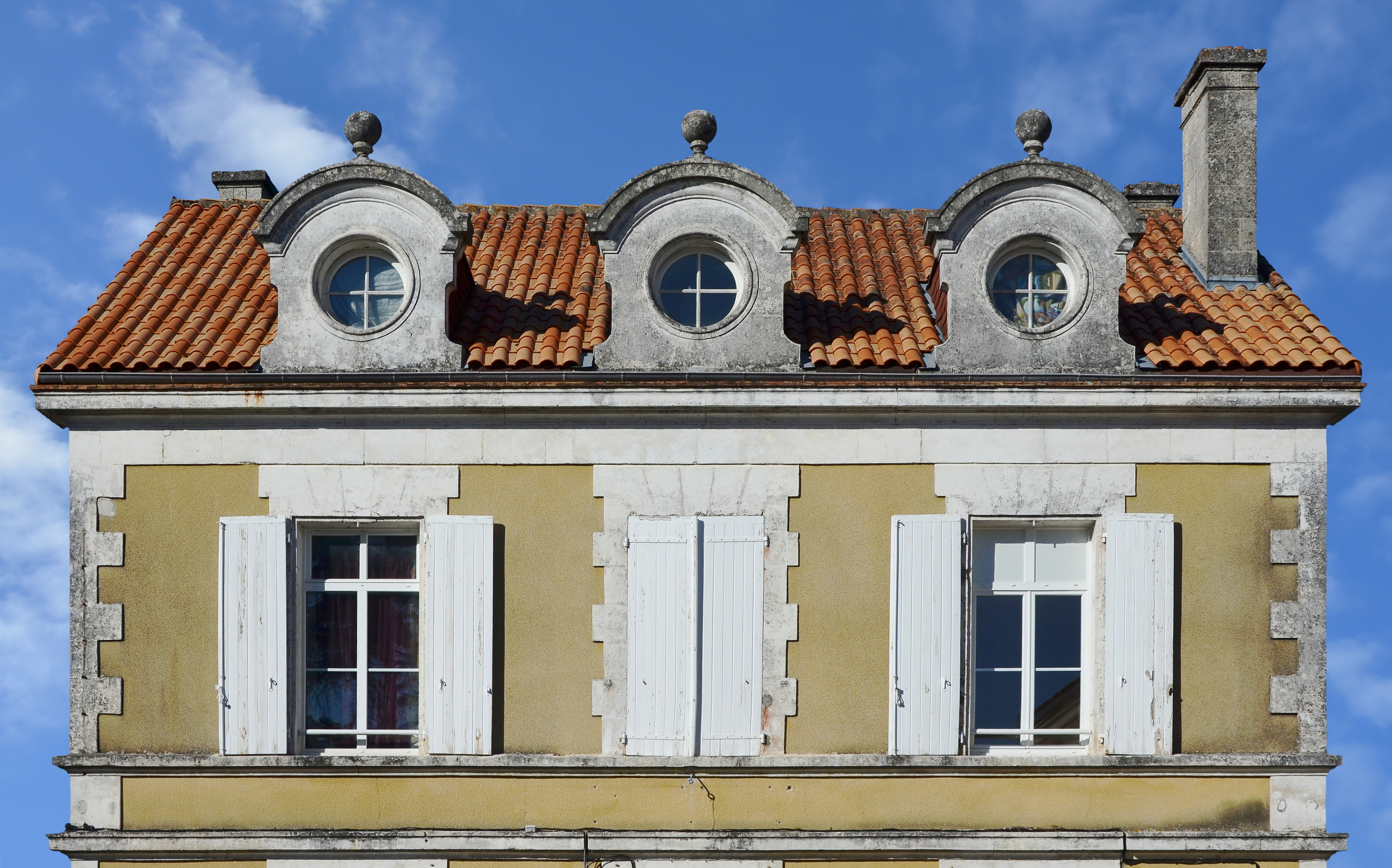 19th-century house: first floor and dormer windows, Sers, Charente, France.